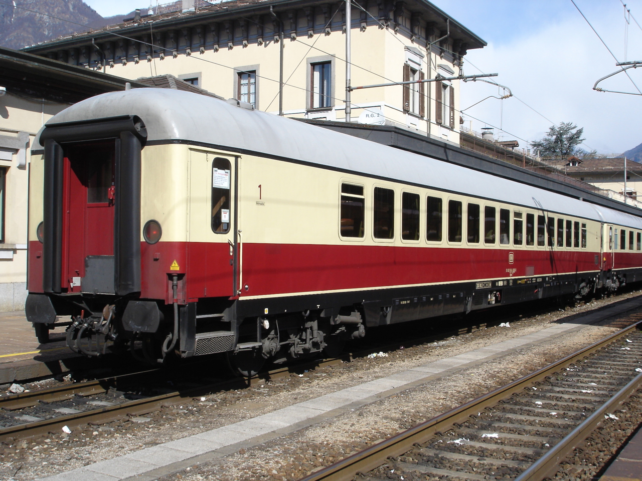 Apmz121.0 61 80 18-94 008-9 at Domodossola train station.